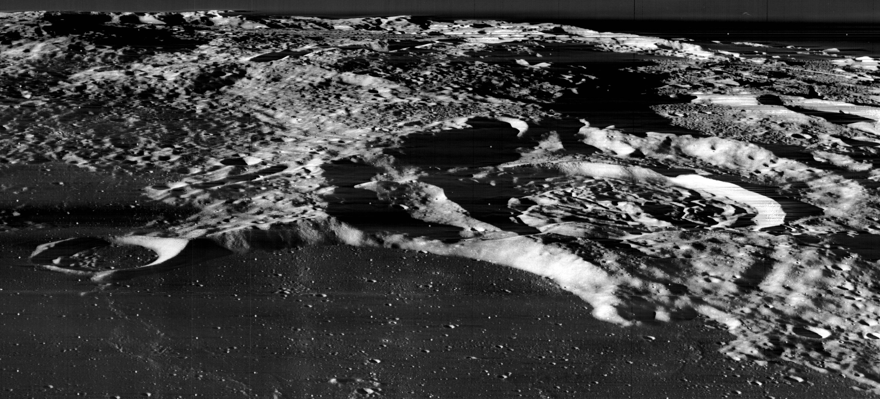 Oblique view of Damoiseau (right of center) and surrounding features, on the moon, facing southwest. The flat plain in the foreground is Oceanus Procellarum, and the semi-circular "bay" below center is Damoiseau H. The small crater at far left adjacent to Damoiseau H is Damoiseau L. The south wall of Damoiseau M is visible, concentric with Damoiseau itself. Damoiseau A is behind (above and to the right of) Damoiseau.